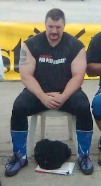 Karl Gillingham. A powerlifter & a strongman from the USA.